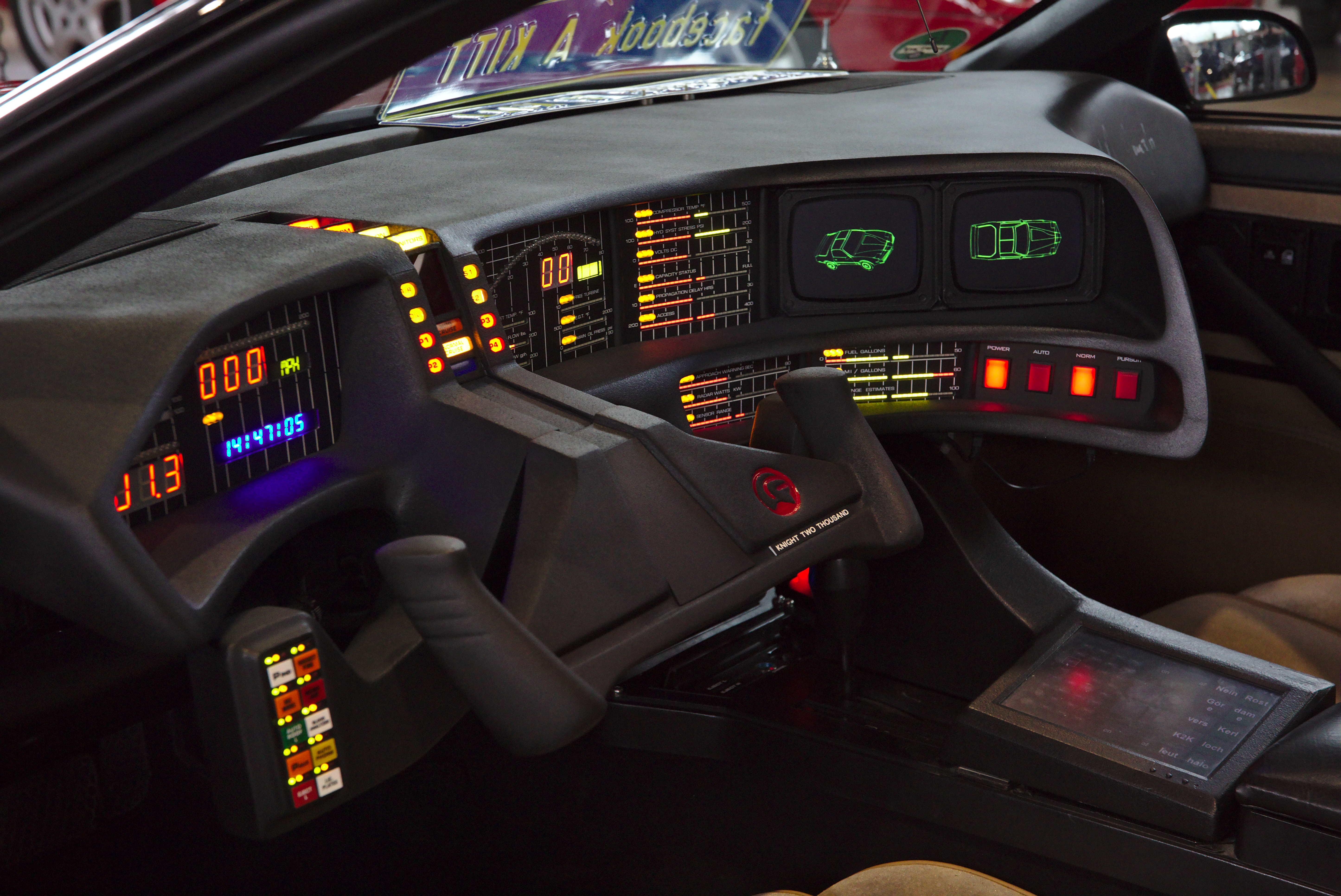 KITT (Knight Industries Two Thousand) at Retro Classics 2018